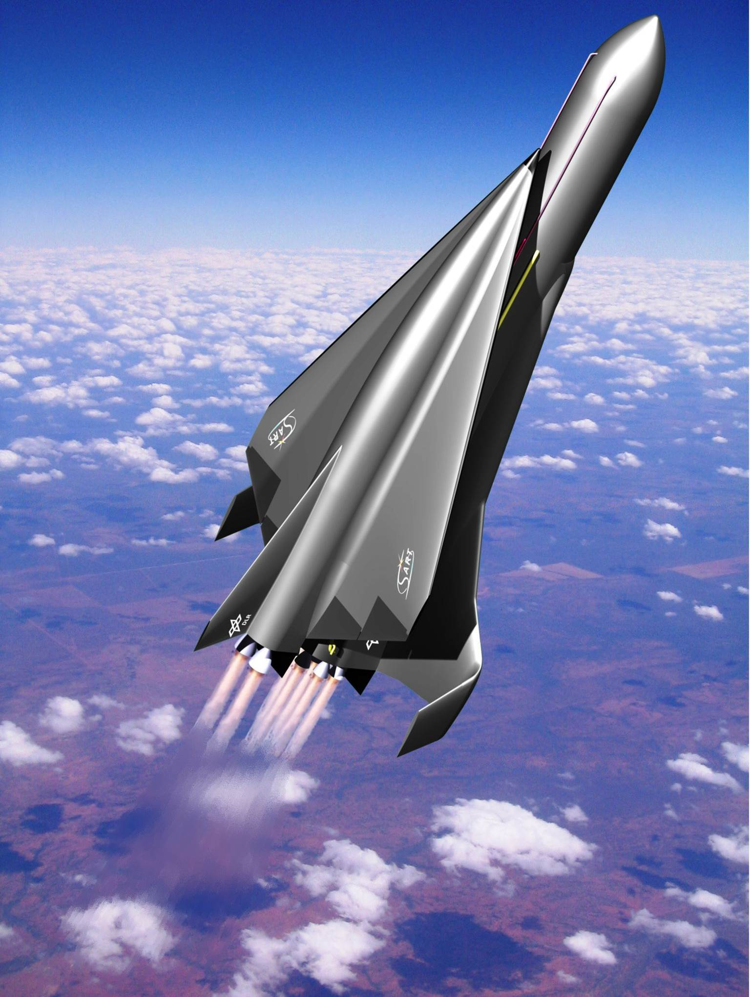 Artist's impression of the SpaceLiner 7 full configuration during the ascent phase